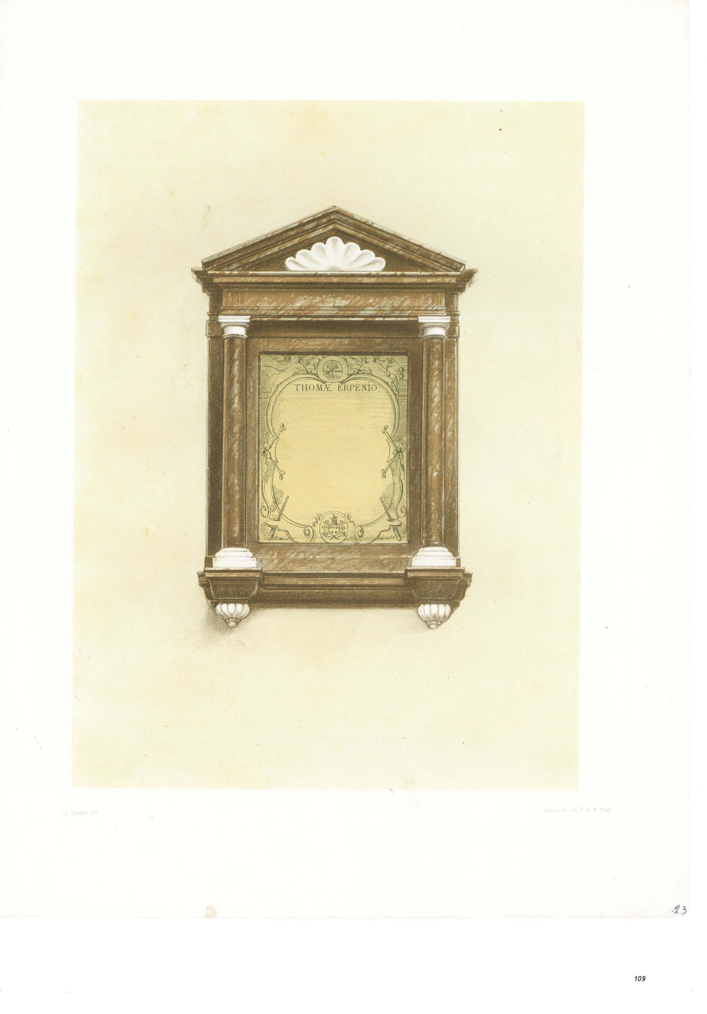 epitaph for Thomas Erpenius at Leyden Pieterskerk